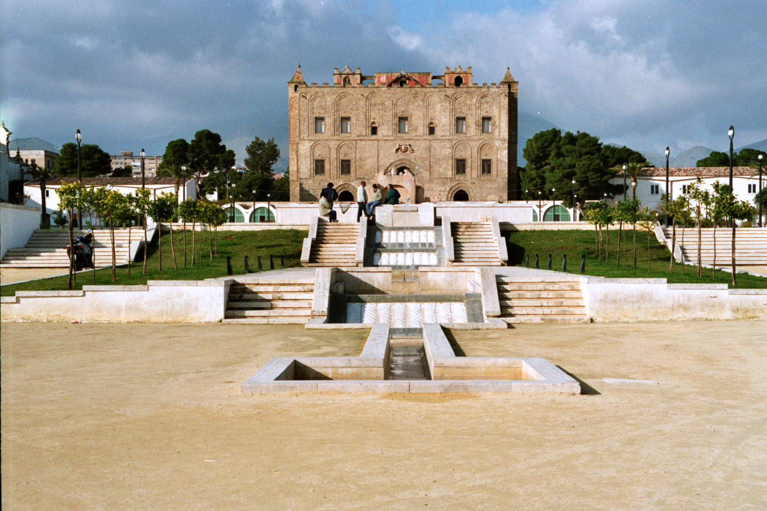 Zisa, Palermo Center axis of the park with water cascades